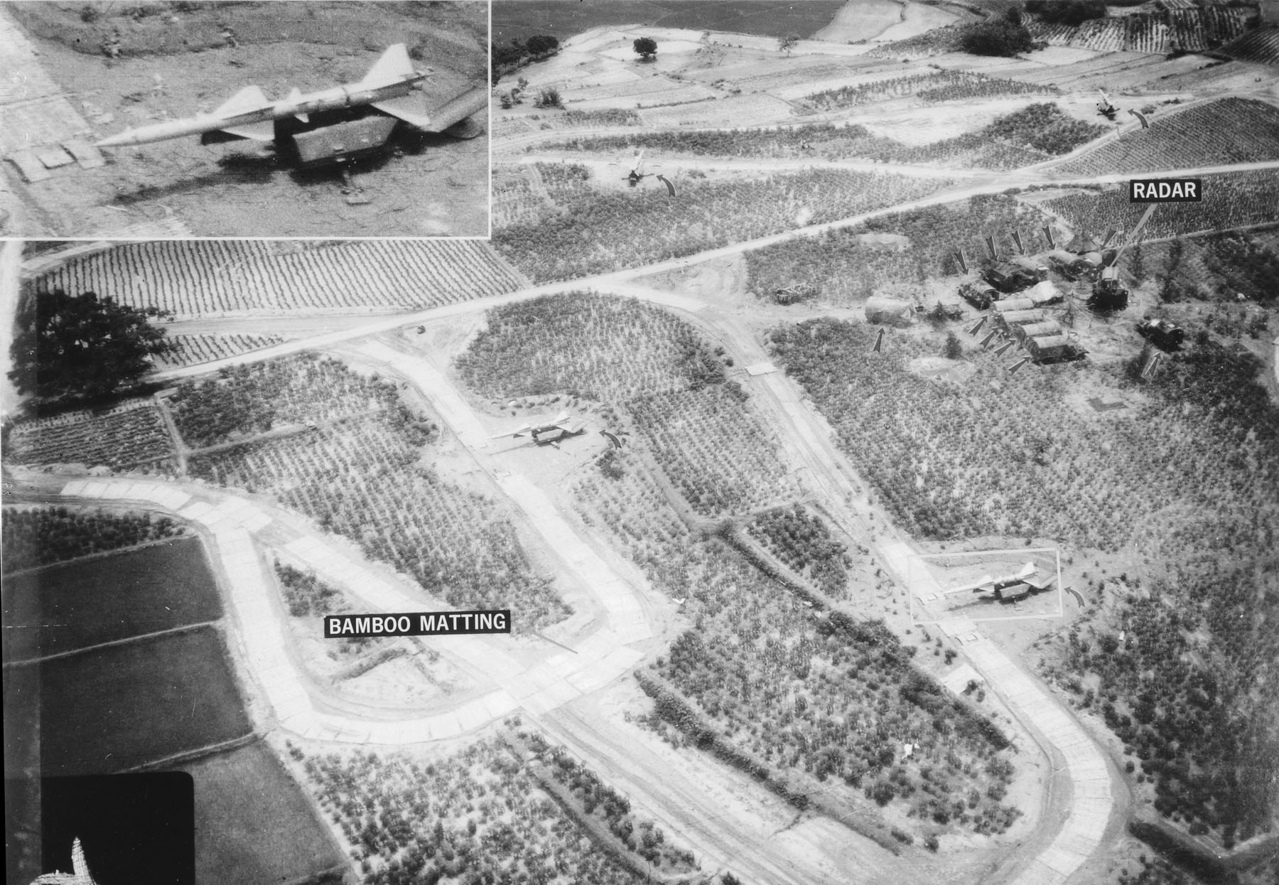 A photograph of a North Vietnamese SA-2 missile site taken by a USAF reconnaissance aircraft in August 1965.